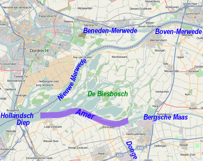 Amer, Netherlands location map